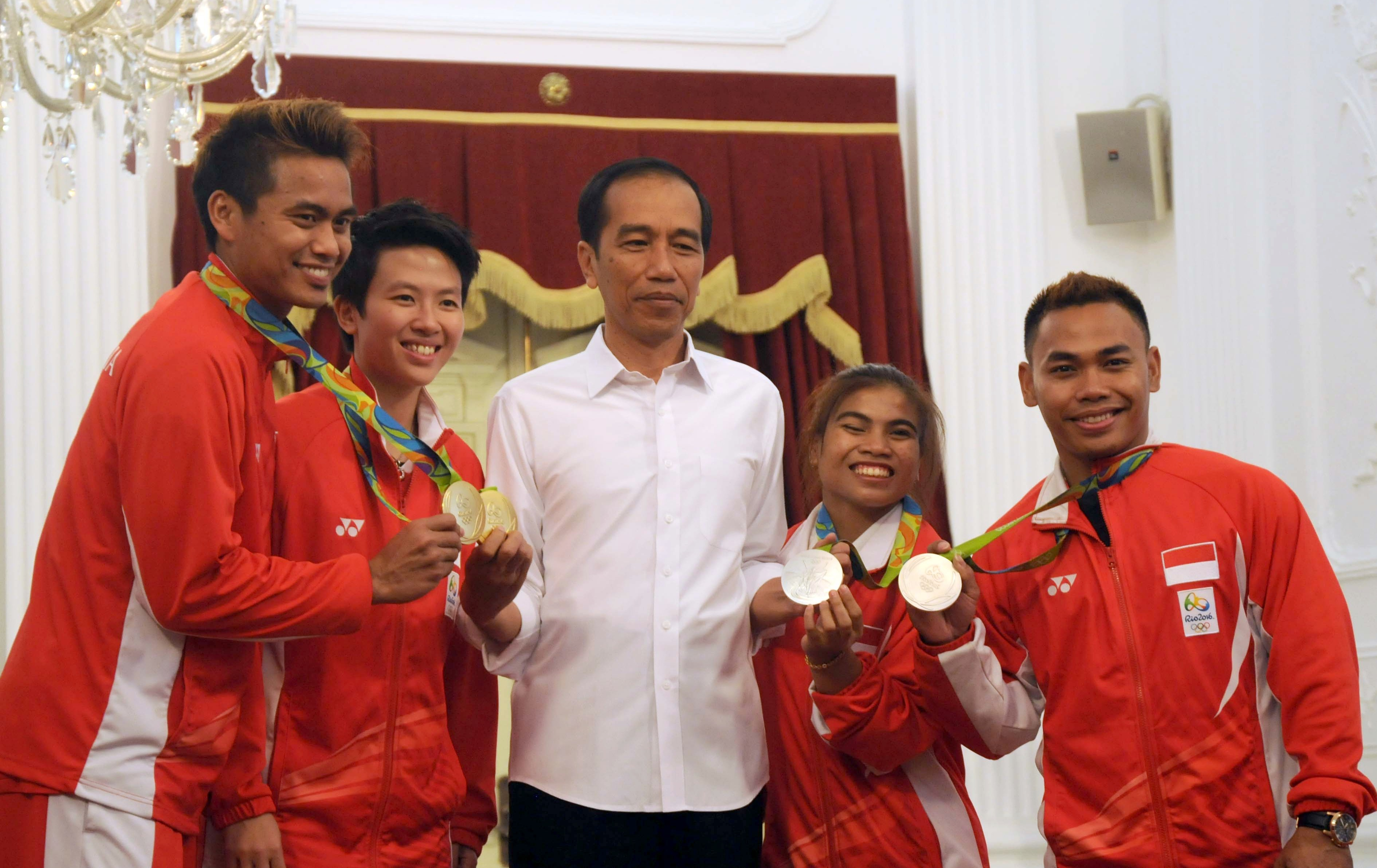 President Jokowi poses with gold medalists of 2016 Rio de Janeiro Olympic Games Tontowi Yahya and Liliyana Natsir, and silver medalists Sri Wahyuni and Eko Yuli on Wednesday (24/ 8), at the State Palace, Jakarta